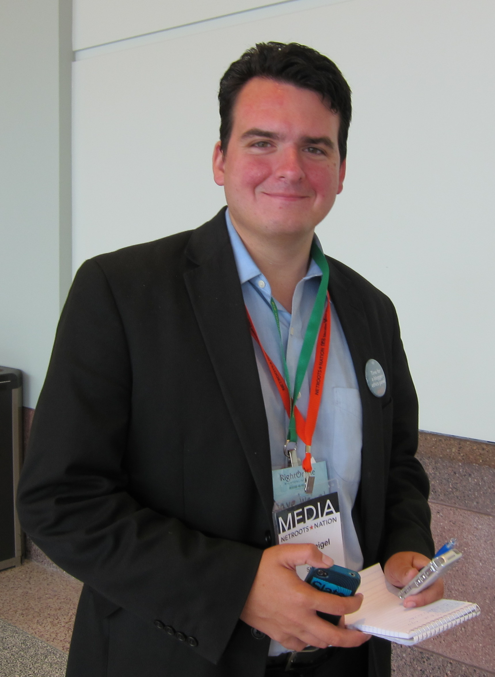 Dave Weigel at Netroots Nation 2011